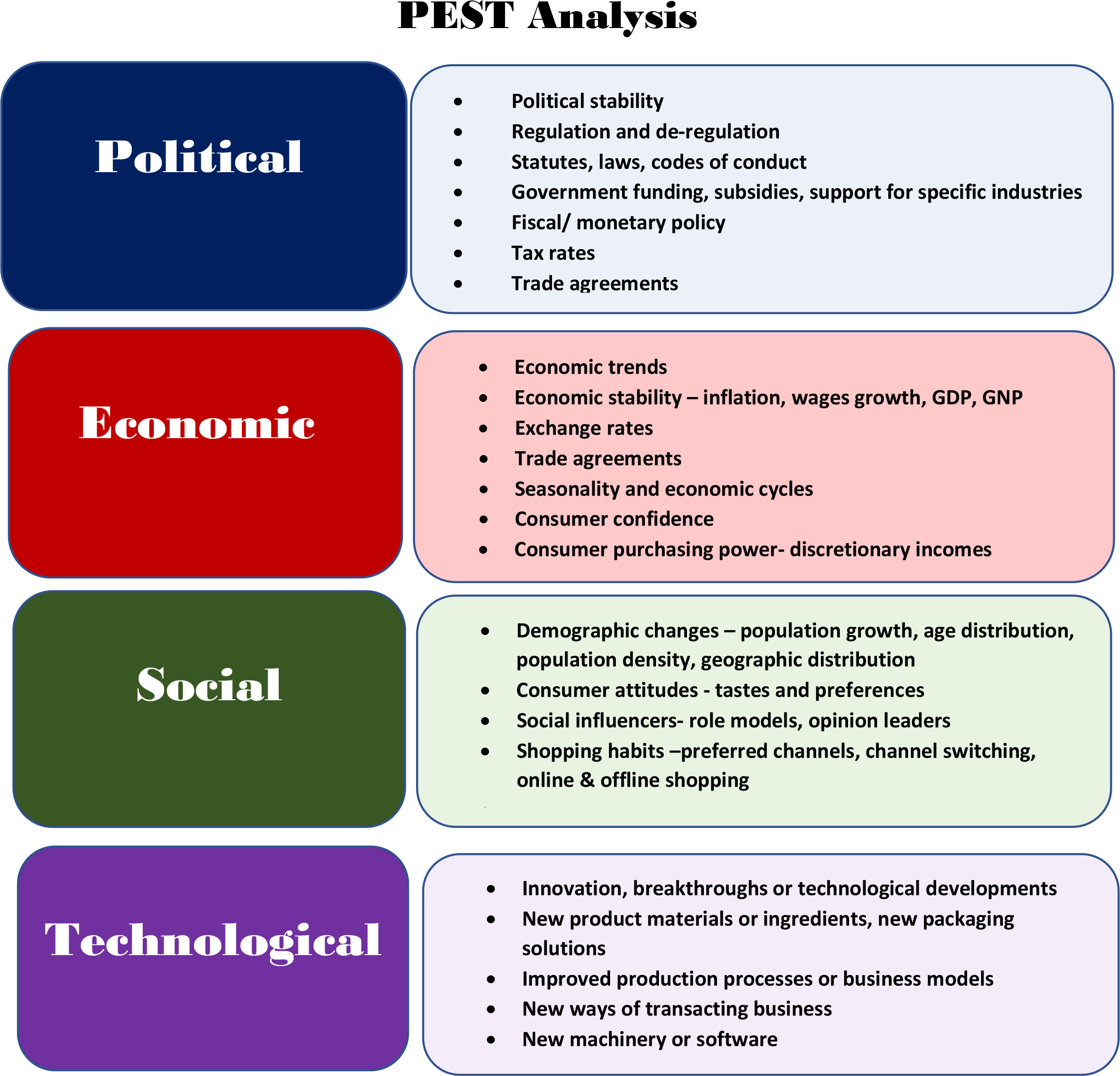 Original concept drawing based on content appearing in article, Marketing strategy, created by me, using Adobe photoshop on this day